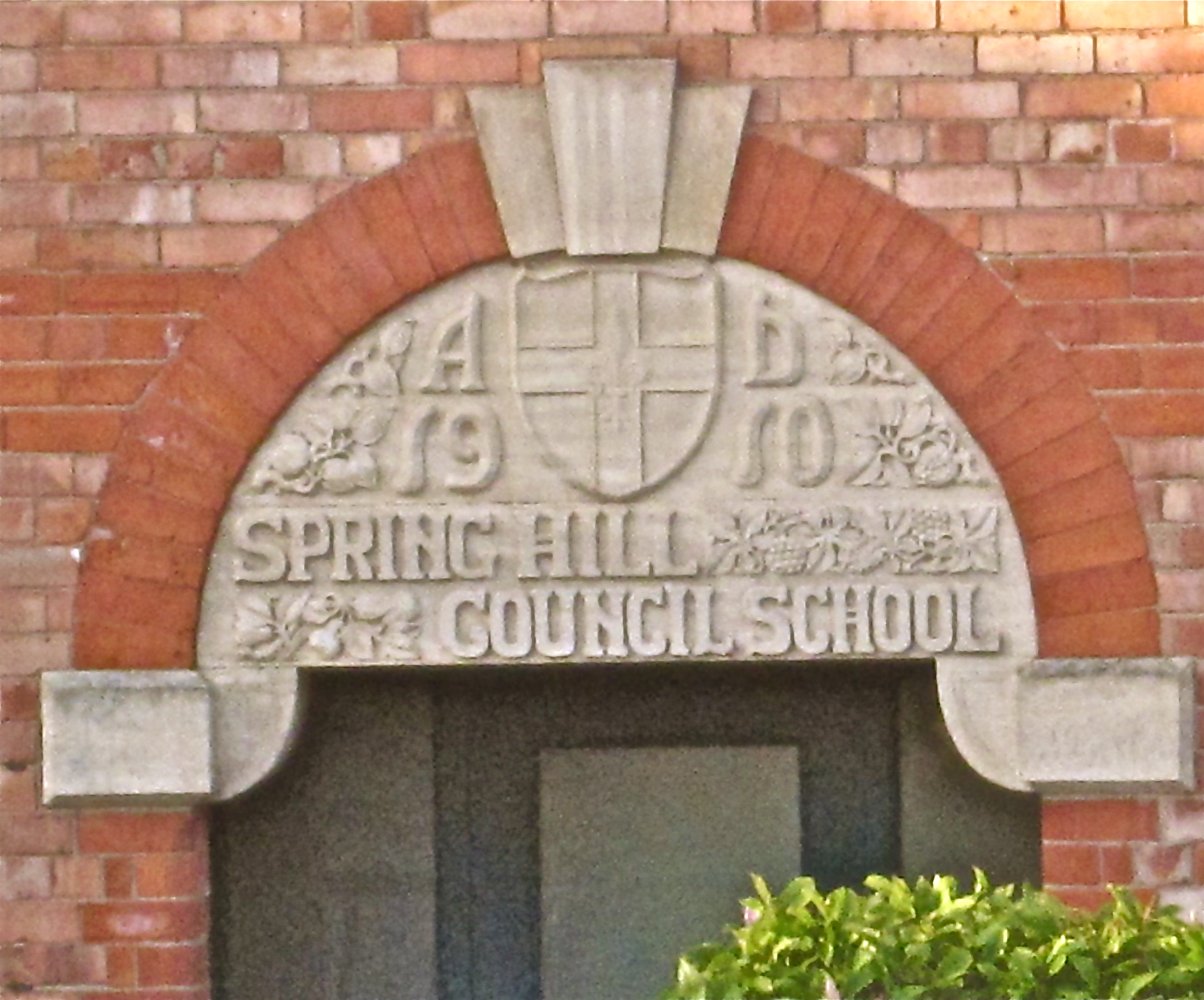 Decorative entrance arch to the Spring Hill Council School, Hungate, Lincoln. 1910.